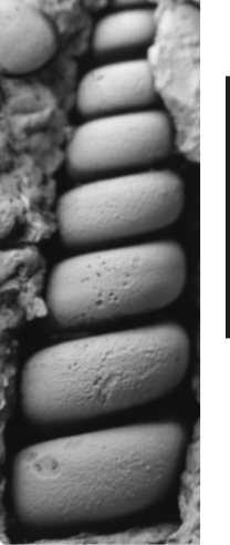 Black-and-white photo of abapertural view of holotype Potamides archiaci PG/K/Cr 41. Scale bar is 10 mm.